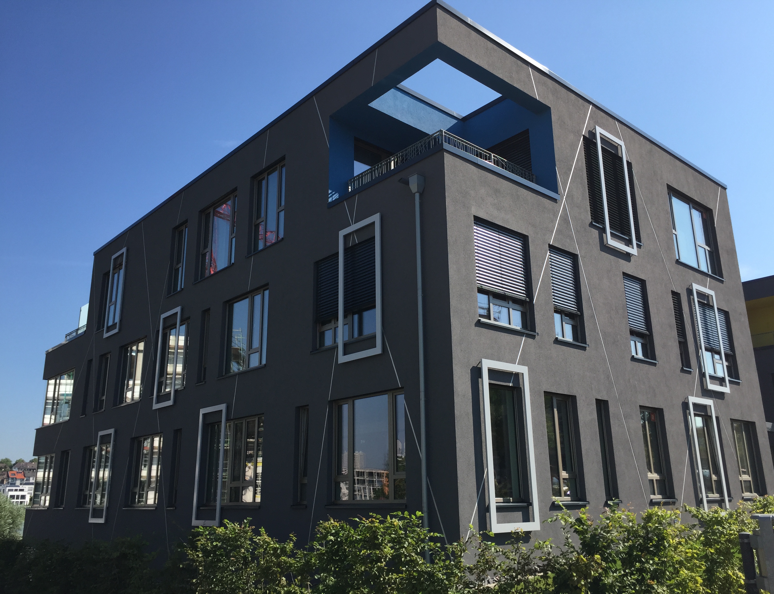 The Headquarter of the German Handball-Bundesliga